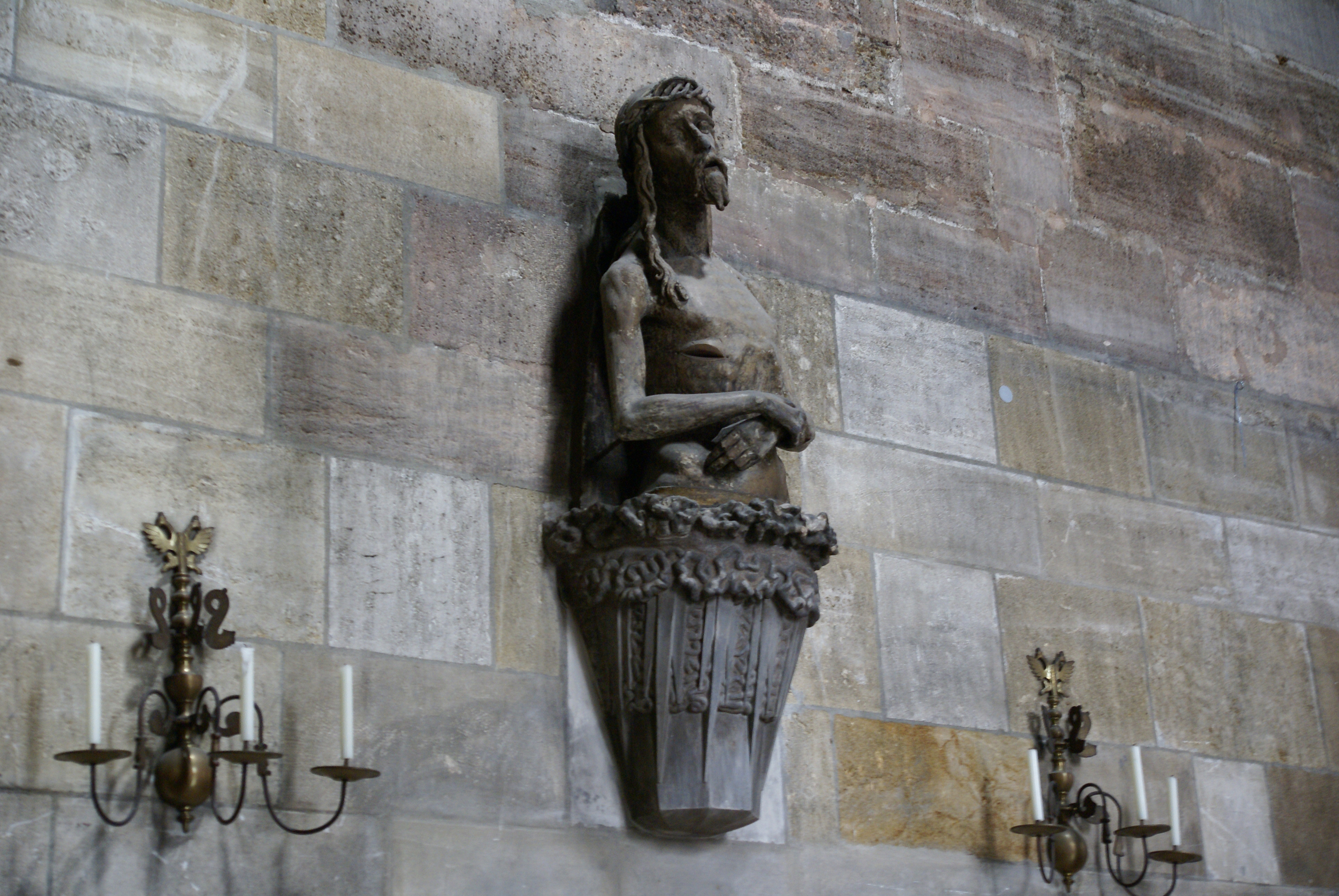 Stephansdom Christ with a Toothache, Vienna